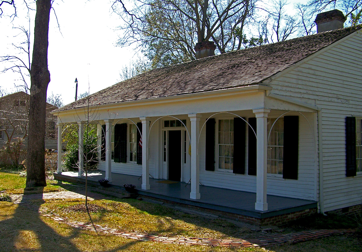 The Oaks House and Museum near downtown Jackson, Mississippi.